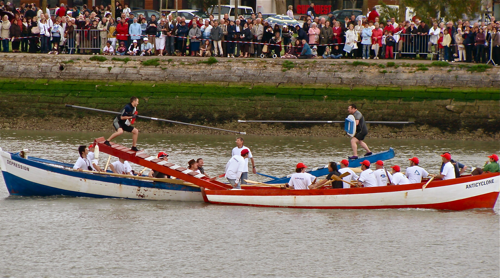 sea jousting in La Rochelle